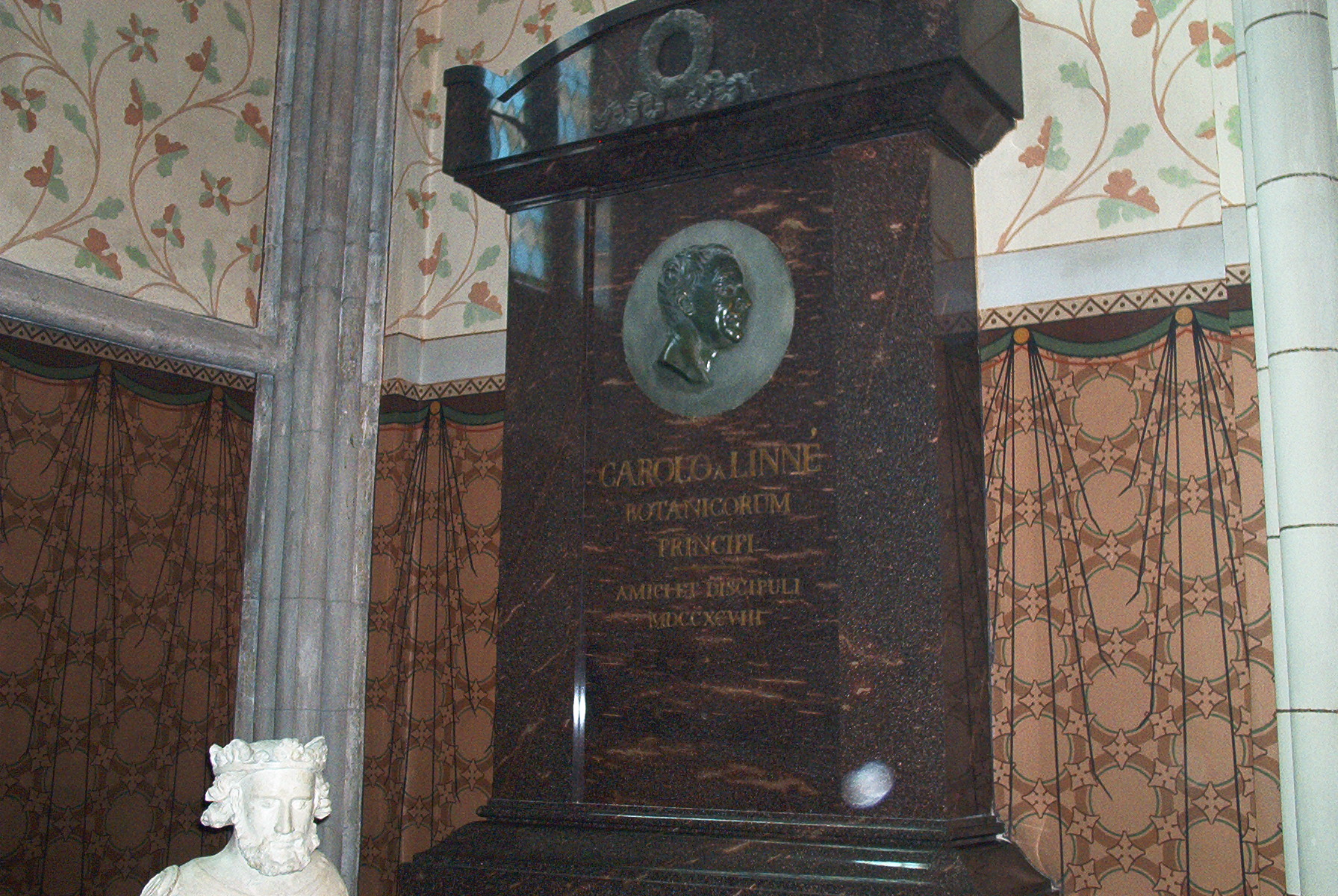 Epitaph of Carolus Linnaeus, Uppsala Cathedral.